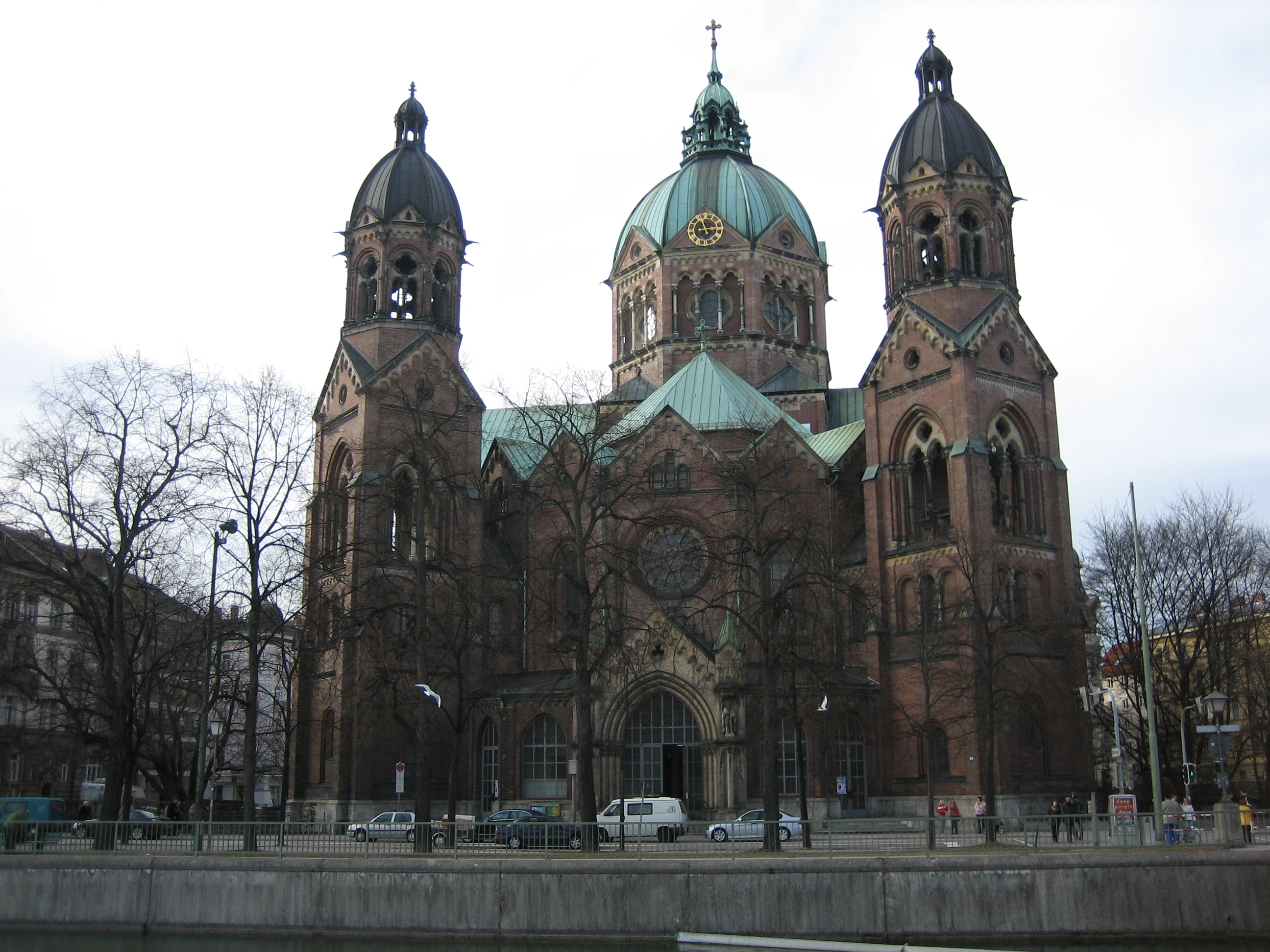 St. Lukas church in Munich, Germany